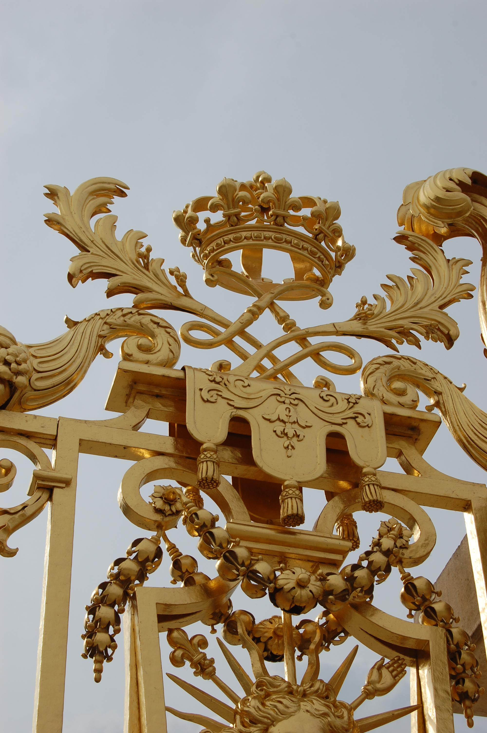 Grille royale, Palace of Versailles